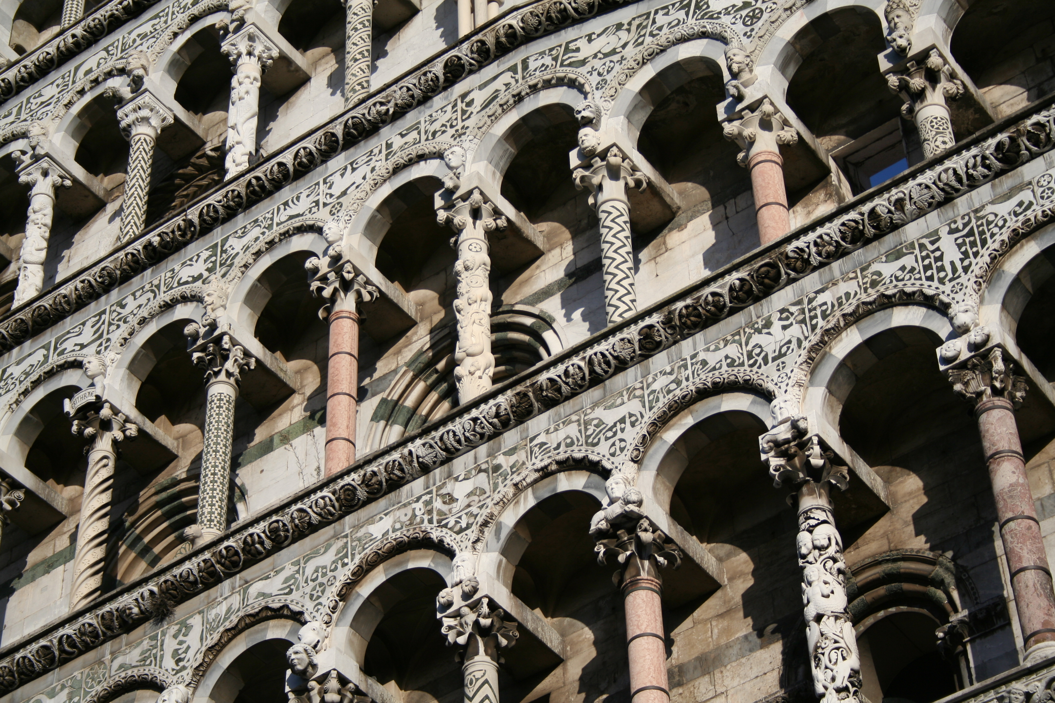 A photograph taken of the pillars of the front facade of the San Michele in Foro church in Lucca Italy.